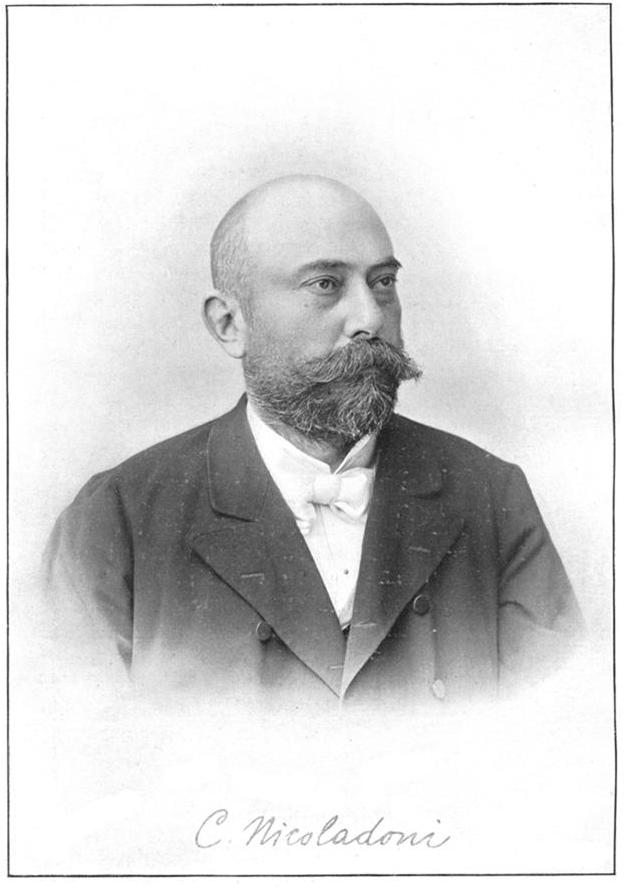 Carl Nicoladoni